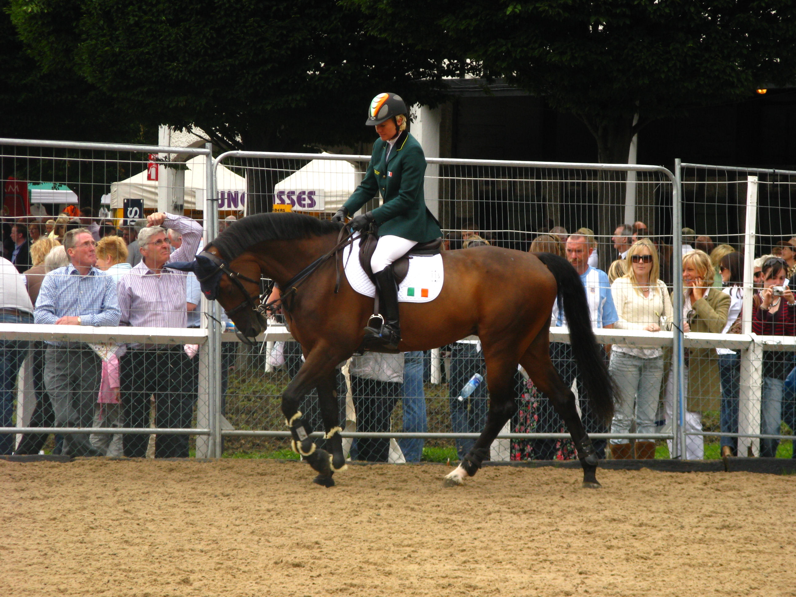 Jessica Kürten and Castle Forbes Libertina in the main practise arena at Dublin Horse Show (Irl) CSIO***** Superleague 2008